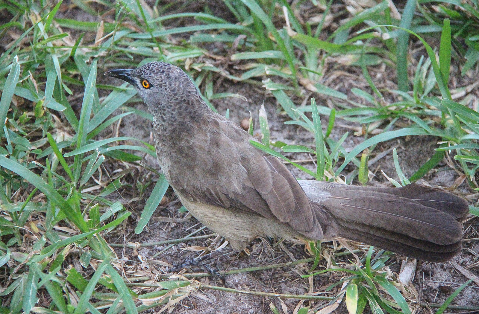 Bird in grass Gambia